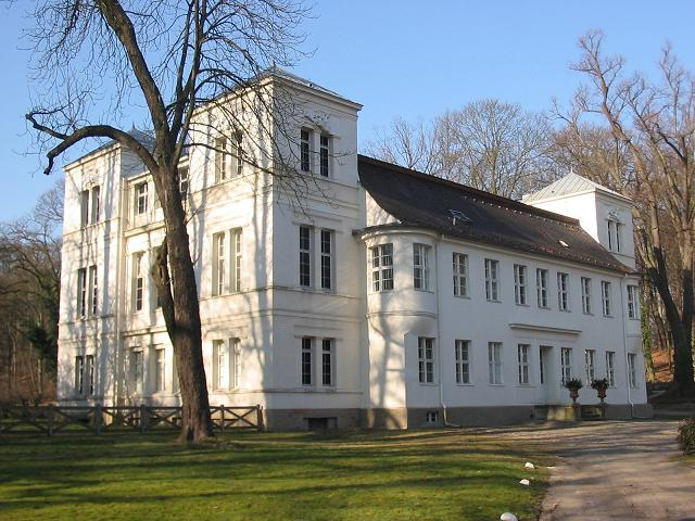 Palace Tegel, Humboldt’s family property in Berlin, reconstructed by Karl Friedrich Schinkel 1820–1824